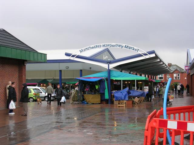 Harpurhey Market. A (typically?) wet day at Harpurhey market. Harpurhey was formerly a centre of the dyeing industry. During the latter part of the 1900's the area became very rundown and neglected. Now, however, a great deal of regeneration work is taking place.